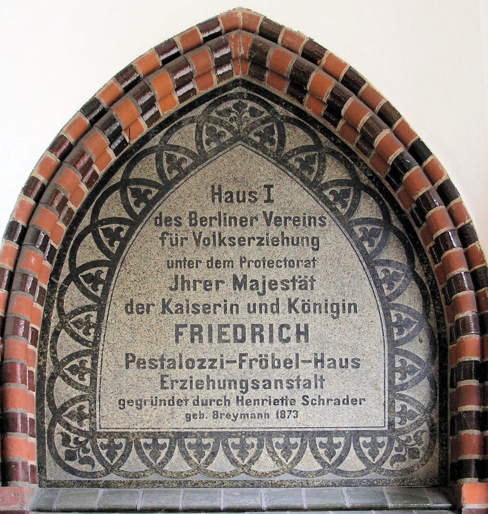 Memorial plaque, Henriette Schrader-Breymann, Karl-Schrader-Straße 7, Berlin-Schöneberg, Germany Koordinate:52°29′29″N 13°21′7″E / 52.49139°N 13.35194°E